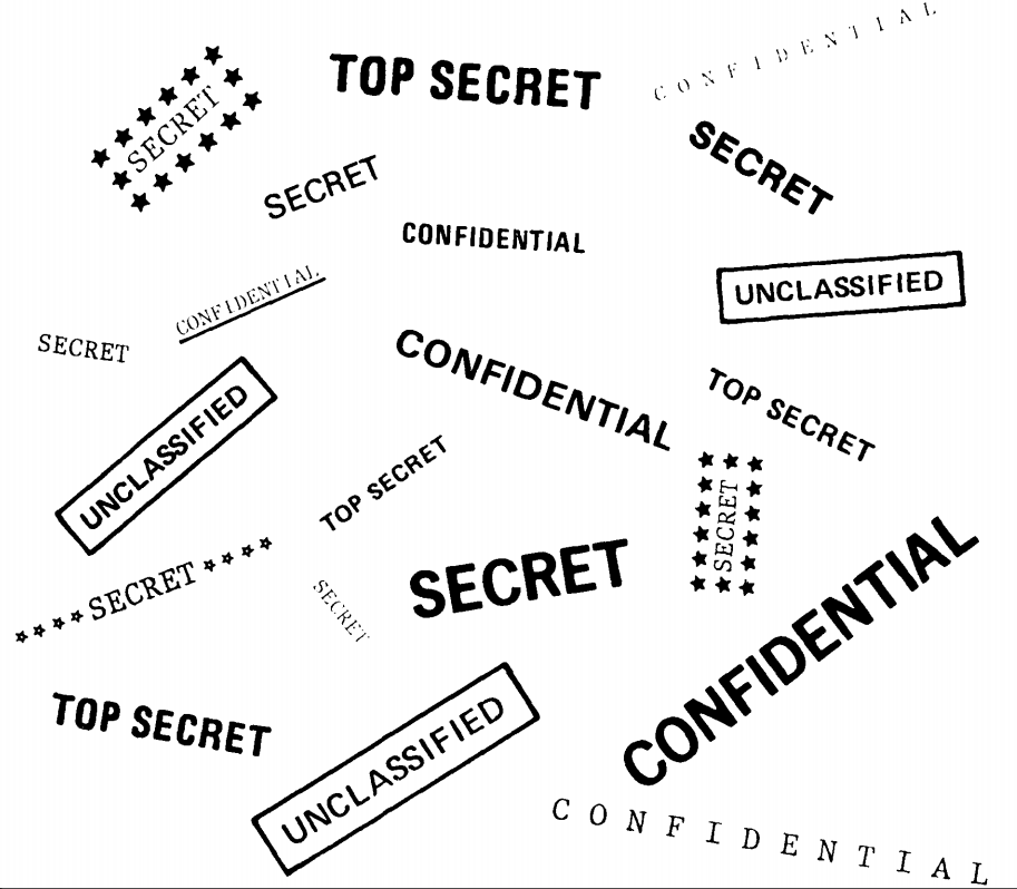 All of these markings are acceptable for marking classified intormation. The size, type, or color of the markings, alone, does not make the markings conspicuous. What is conspicuous on one document or type of material may not be conspicuous on another. A marking is conspicuous when it will be noticed and recognized by the holder as separate or different from other information or material, and it will serve to inform and warn of the special requirements necessary for protection of the information. Every effort should be made to make the markings as conspicuous as possible consistent with the production methods being used when creating classified documents or material.